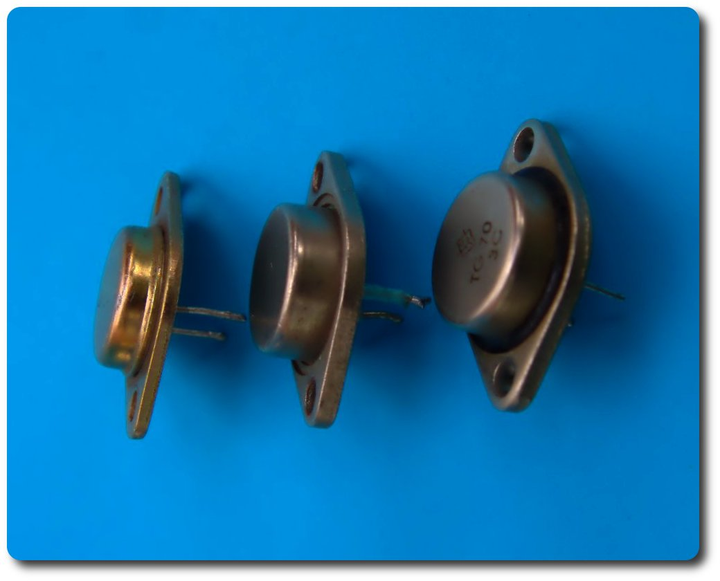 Polish germanium TG70 power transistors manufactured by TEWA